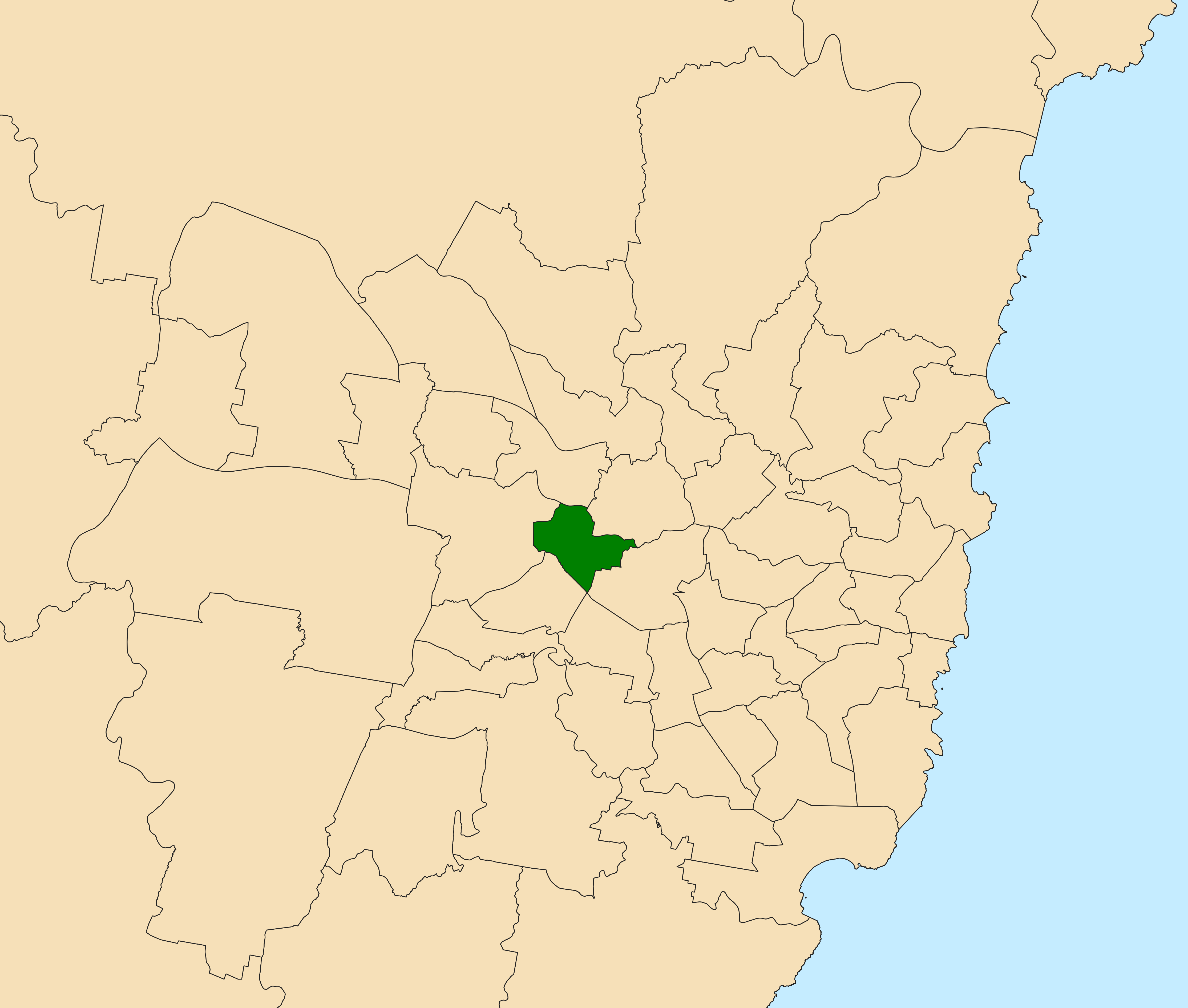 Location of the state electoral district of Granville (dark green) in the metropolitan Sydney area as of the 2019 New South Wales state election. Incorporates or developed using Administrative Boundaries ©PSMA Australia Limited licensed by the Commonwealth of Australia under Creative Commons Attribution 4.0 International licence (CC BY 4.0).